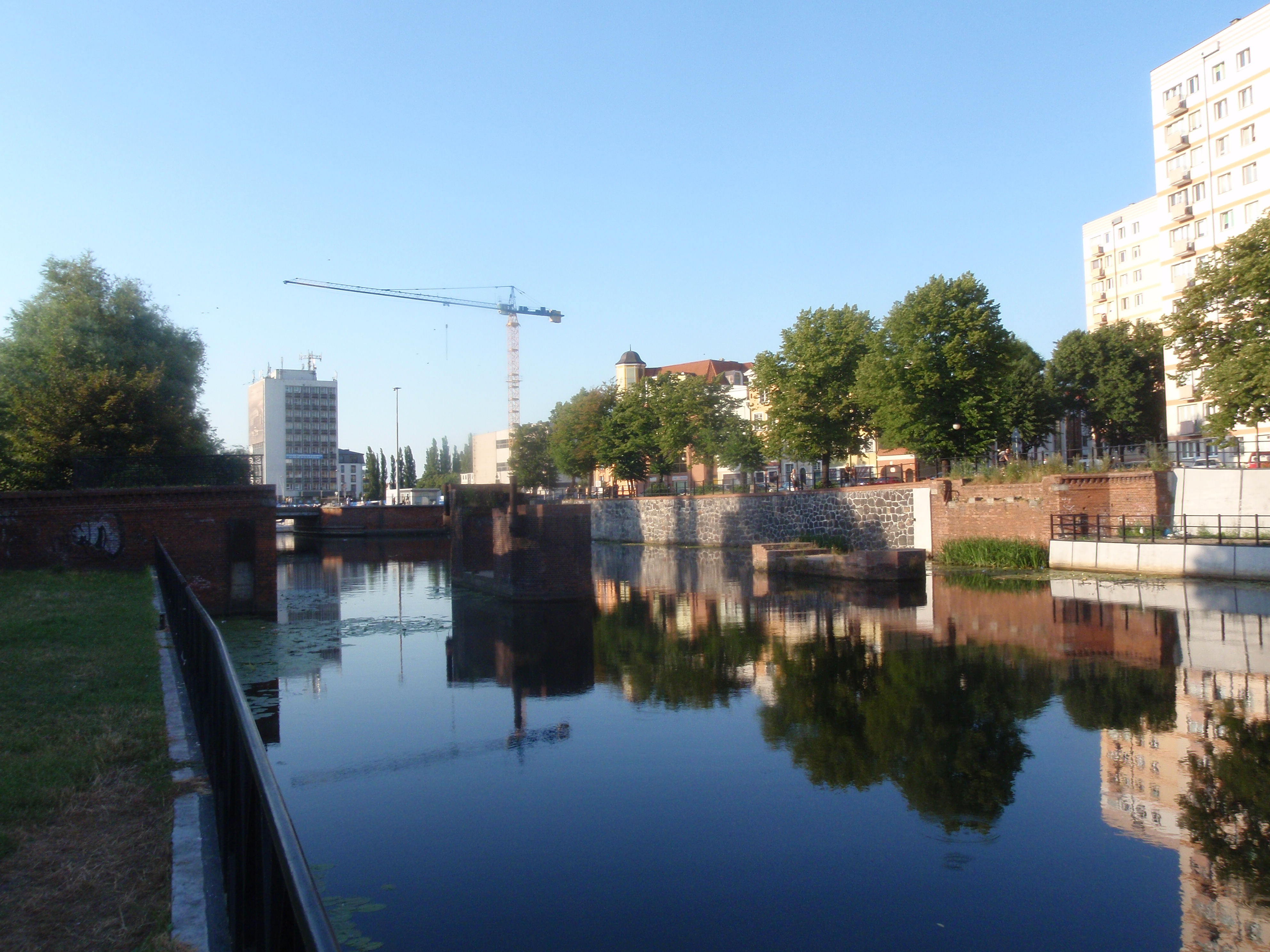 The Nowa Motława river in Gdańsk.